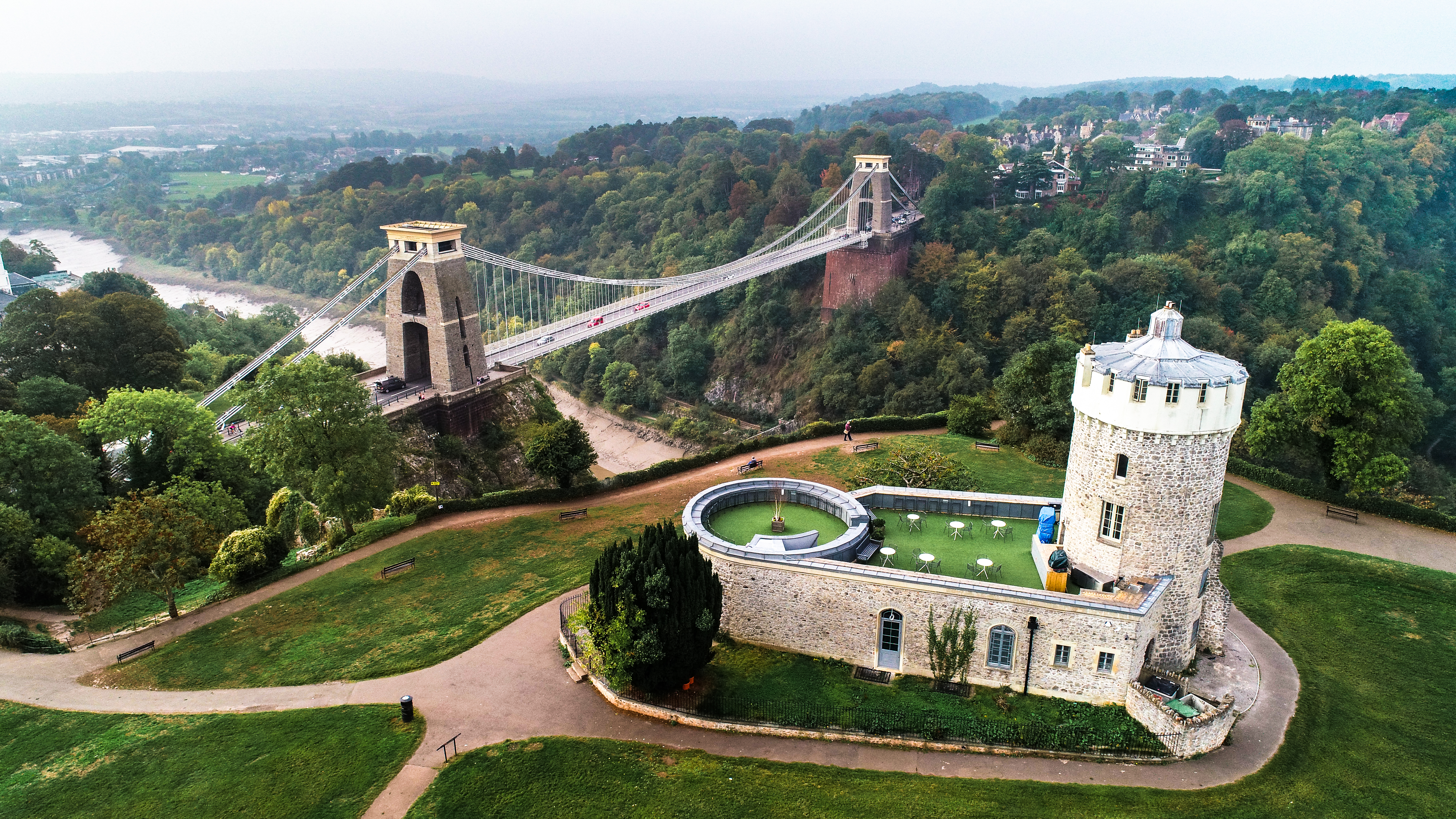 Clifton Suspension Bridge Wikidata has entry Q162170 with data related to this item.